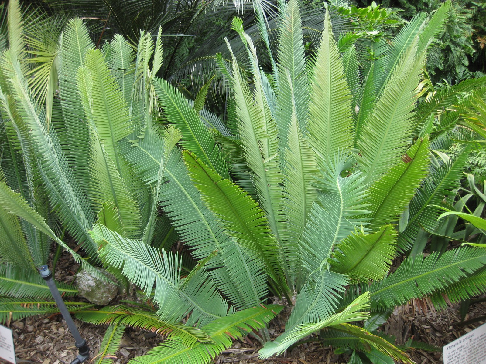 Photographed at the Royal Botanic Gardens Sydney (Australia) in January